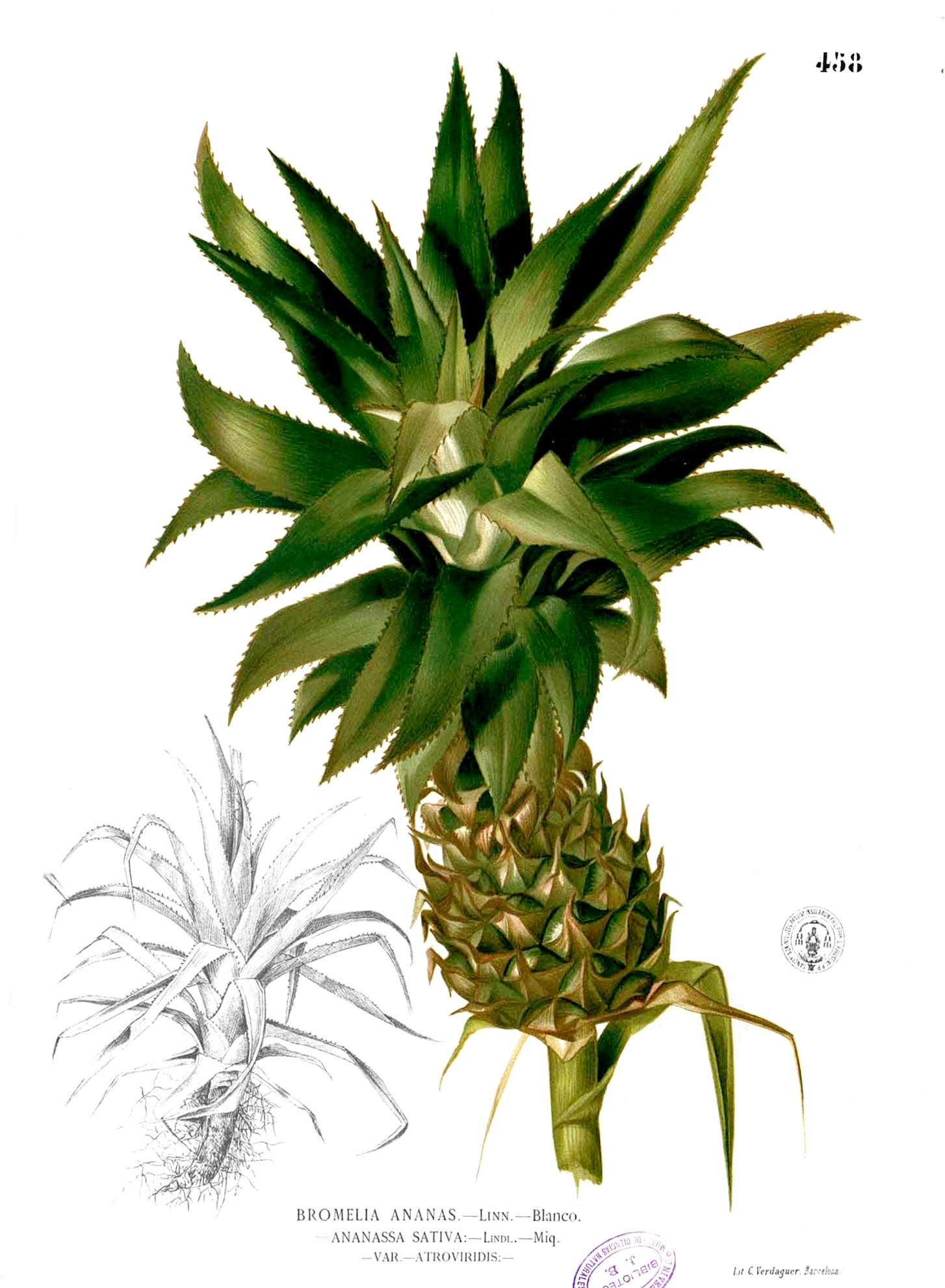 Plate from book